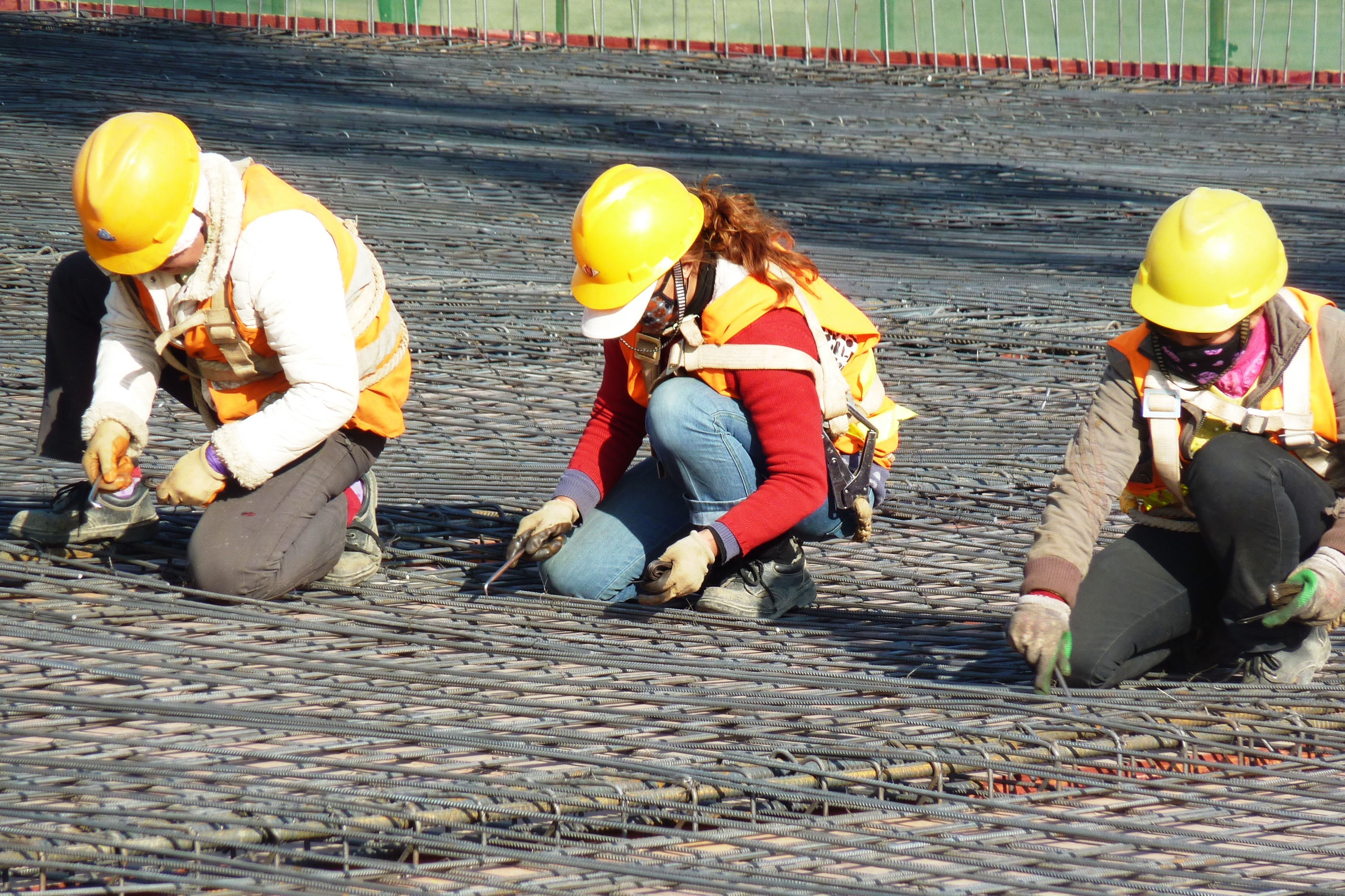 Iron binders in China